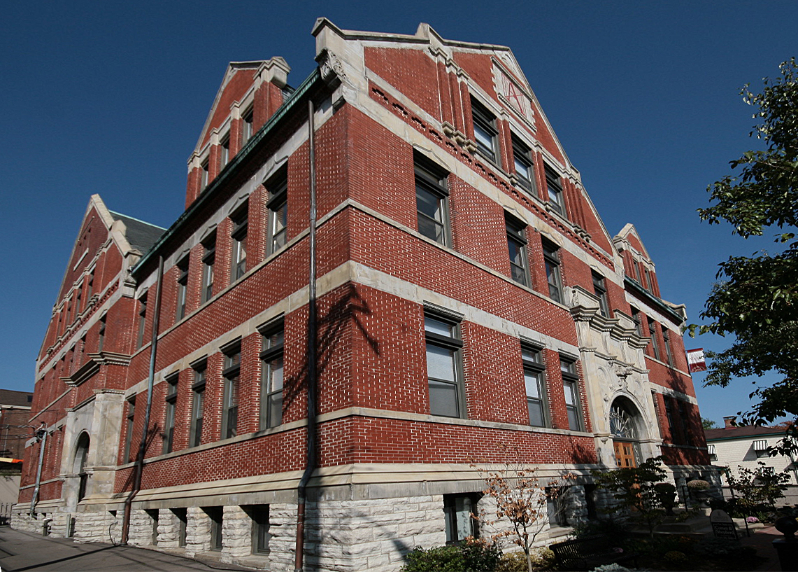 Mt. Adams school in Cincinnati, Oh. Photo by Greg Hume